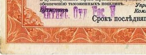 Stamp Chita on 200 rubles 1917.jpg